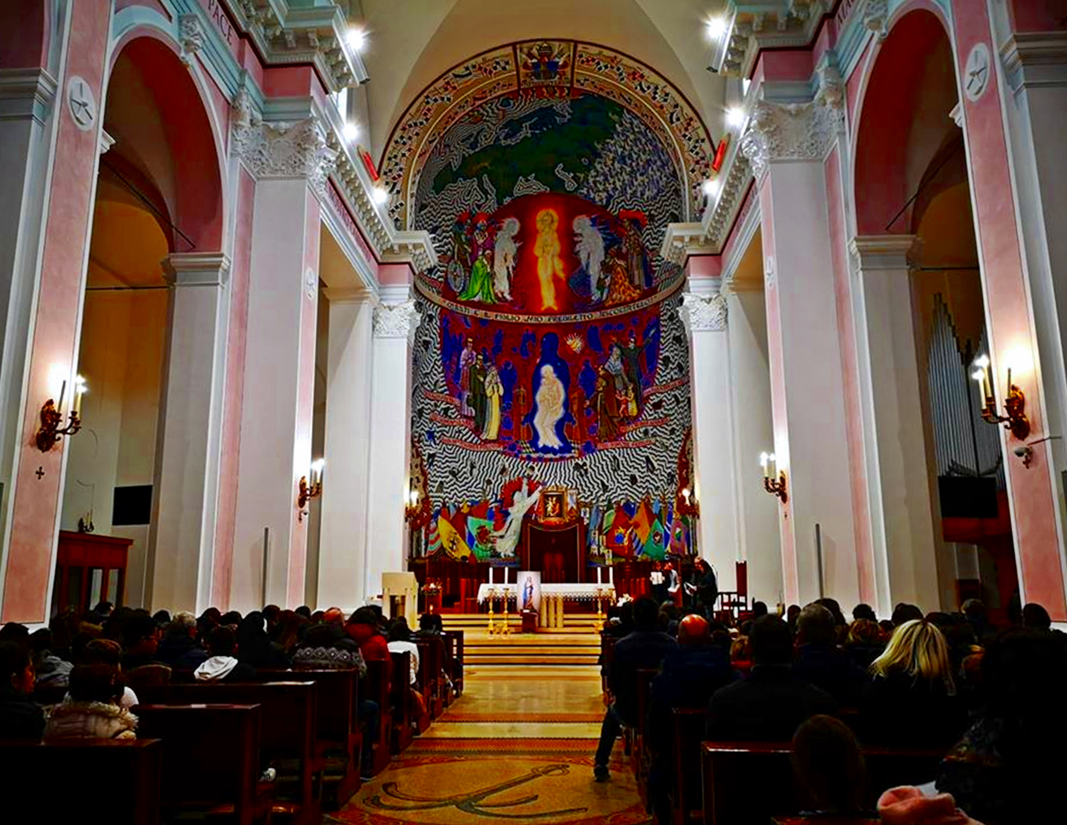 San Benedetto del Tronto, interior of the Cathedral of Santa Maria della Marina